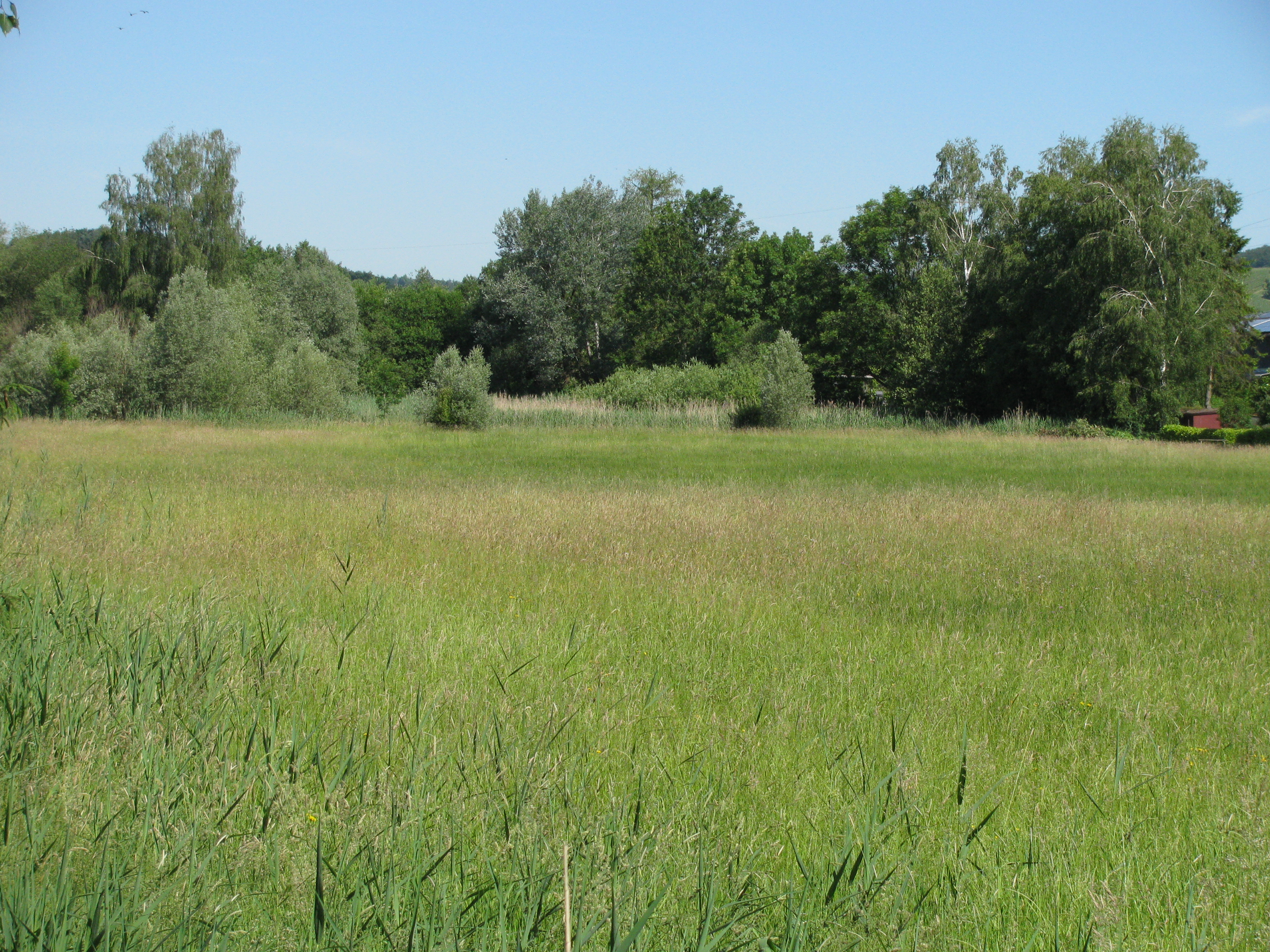 Germany - Baden-Württemberg - Bodenseekreis - Markdorf: nature reserve "Markdorfer Eisweiher"